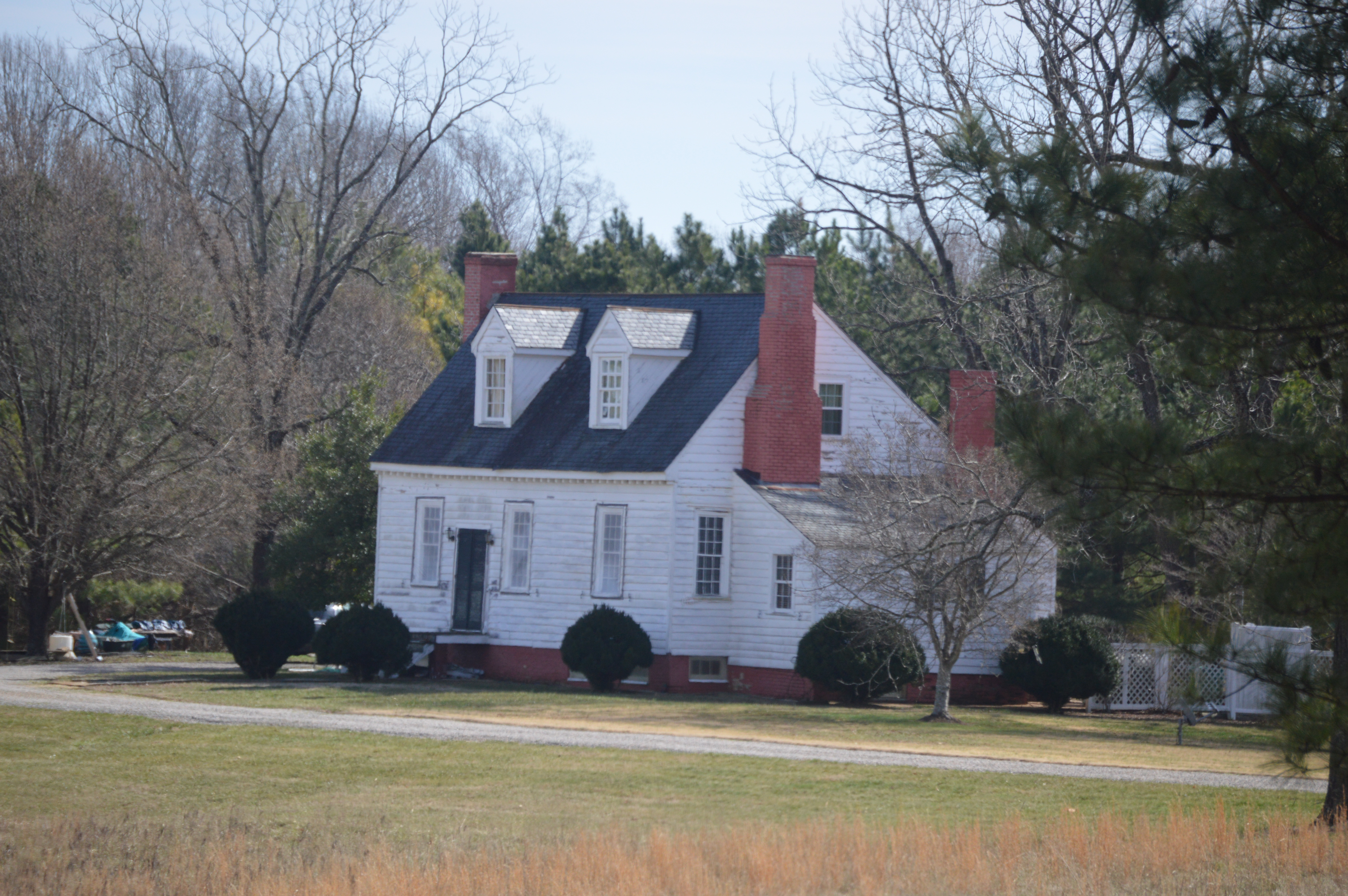 Distant view of Somerset, located at 2310 Ballsville Road midway between Cumberland Court House and Powhatan Court House in Powhatan County, Virginia, United States. Built in 1775 and later expanded, it is listed on the National Register of Historic Places.